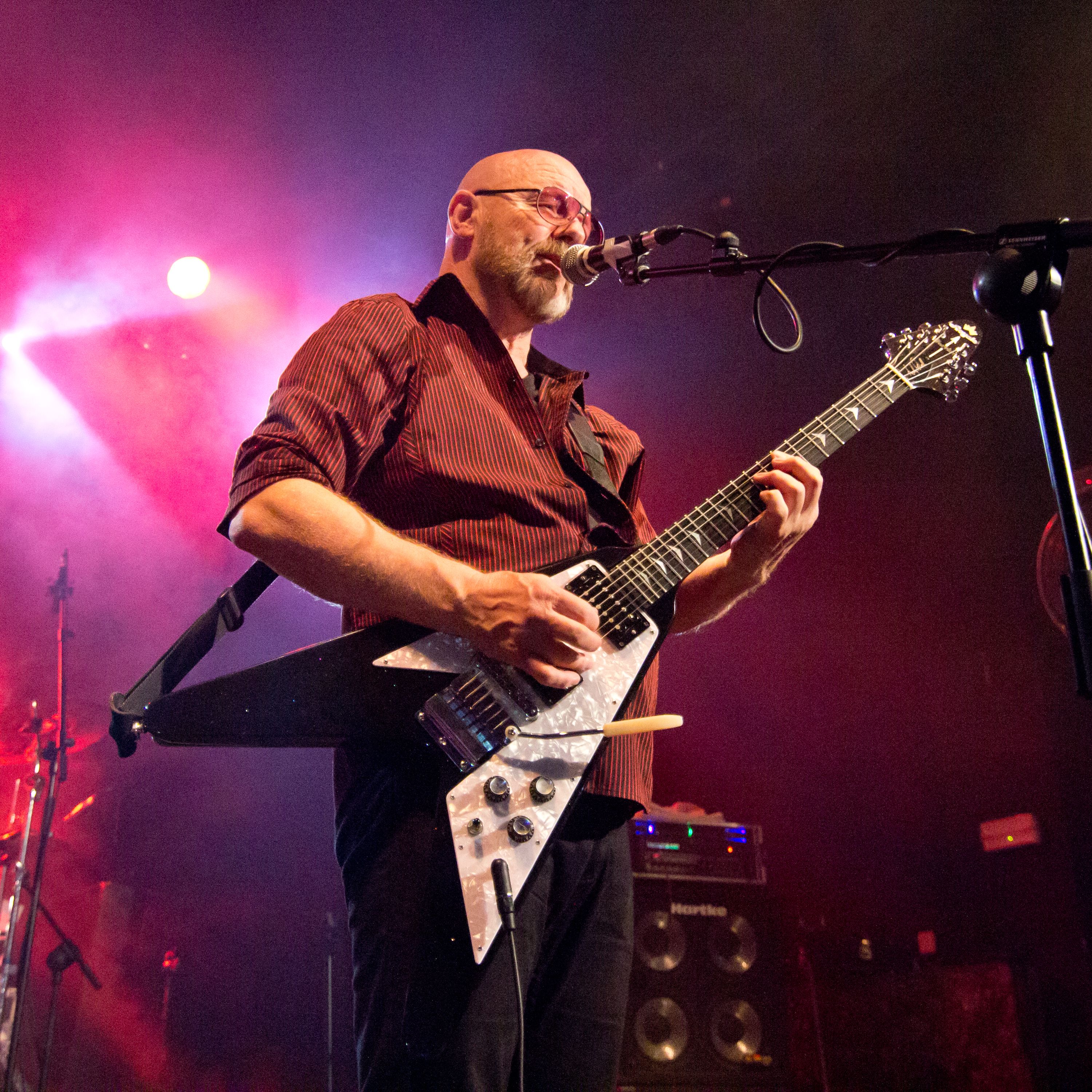 Rock band Wishbone Ash live in Madrid, Spain.